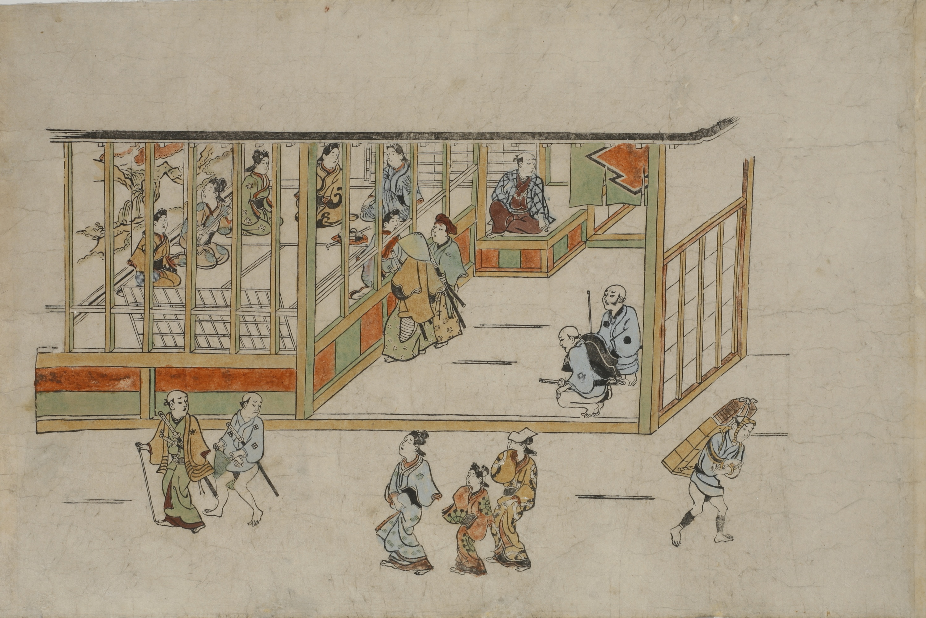 Handcolored woodblock print by Hishikawa Moronobu, series ’Yoshiwara no tei’, lobby of a brothel, c. 1680